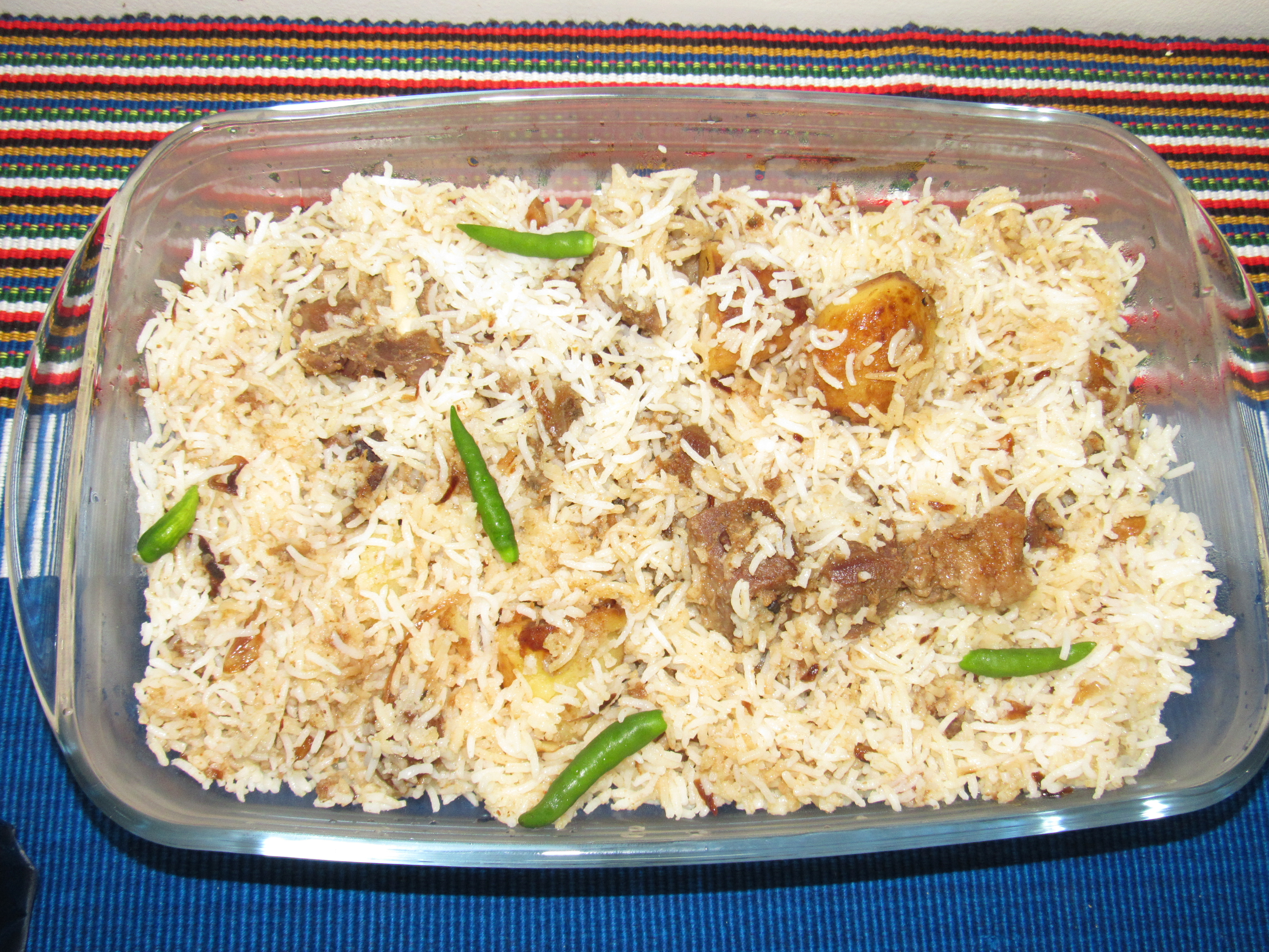 Kacchi Biriyani